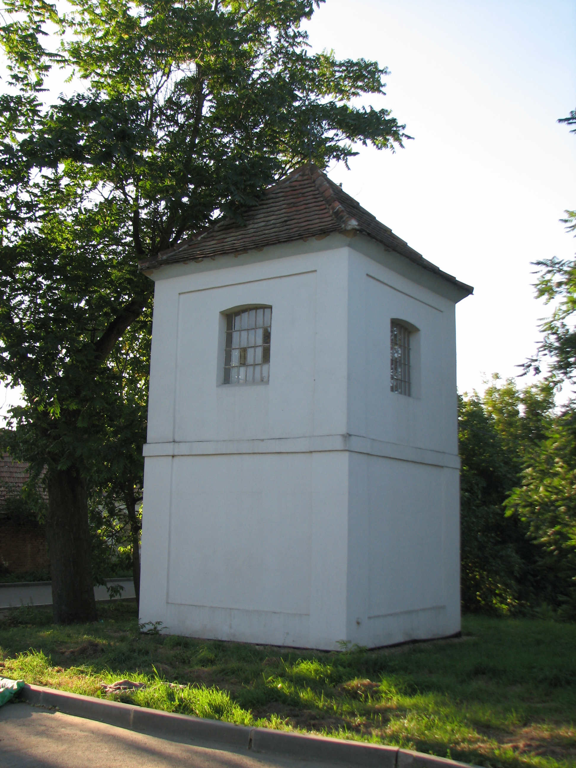 Chapel in Násedlovice, Hodonín District, Czech Republic